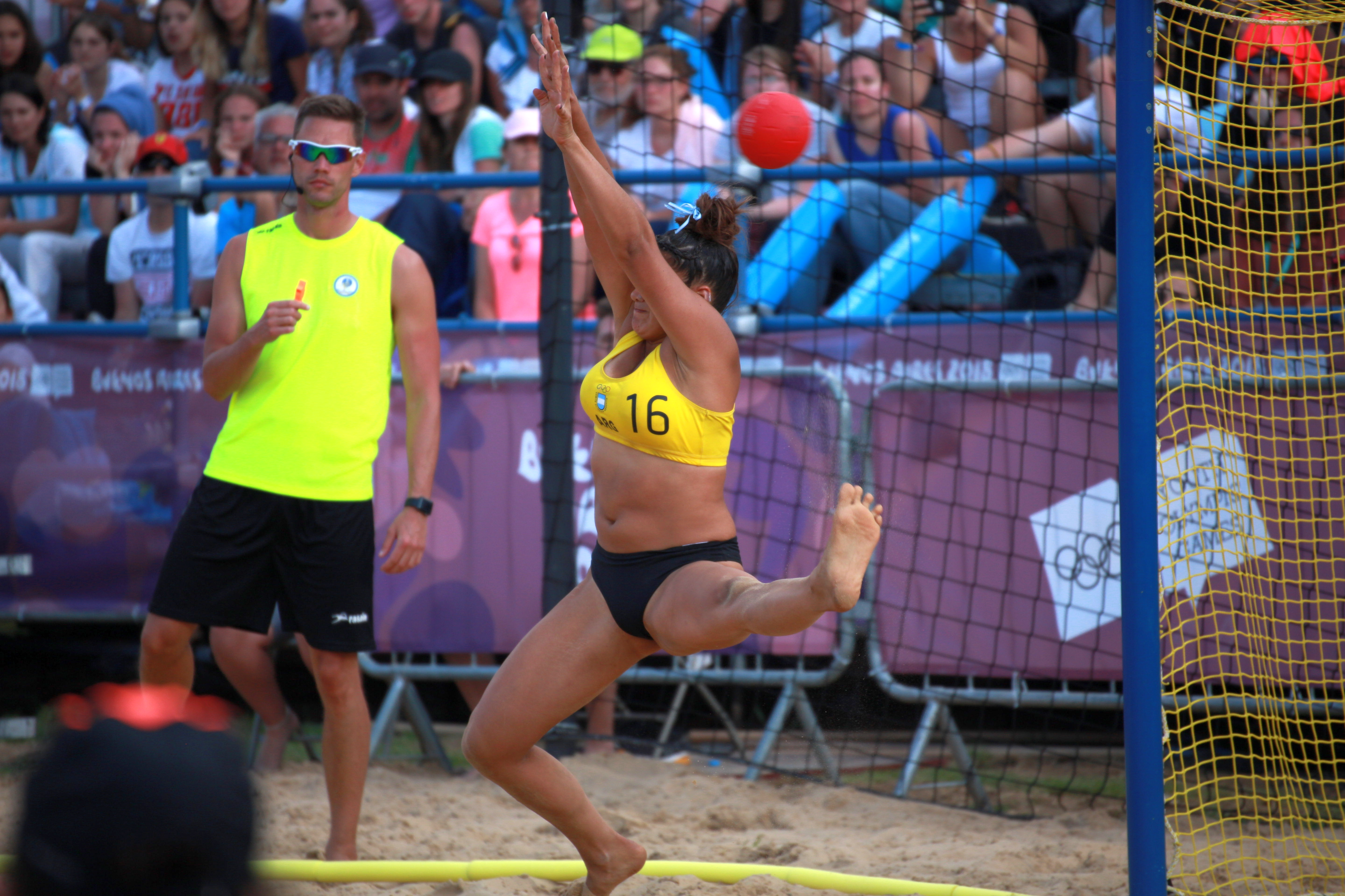 Beach handball at the 2018 Summer Youth Olympics in Buenos Aires at 13 October 2018 – Girls Gold Medal Match – Argentina-Croatia 2:0